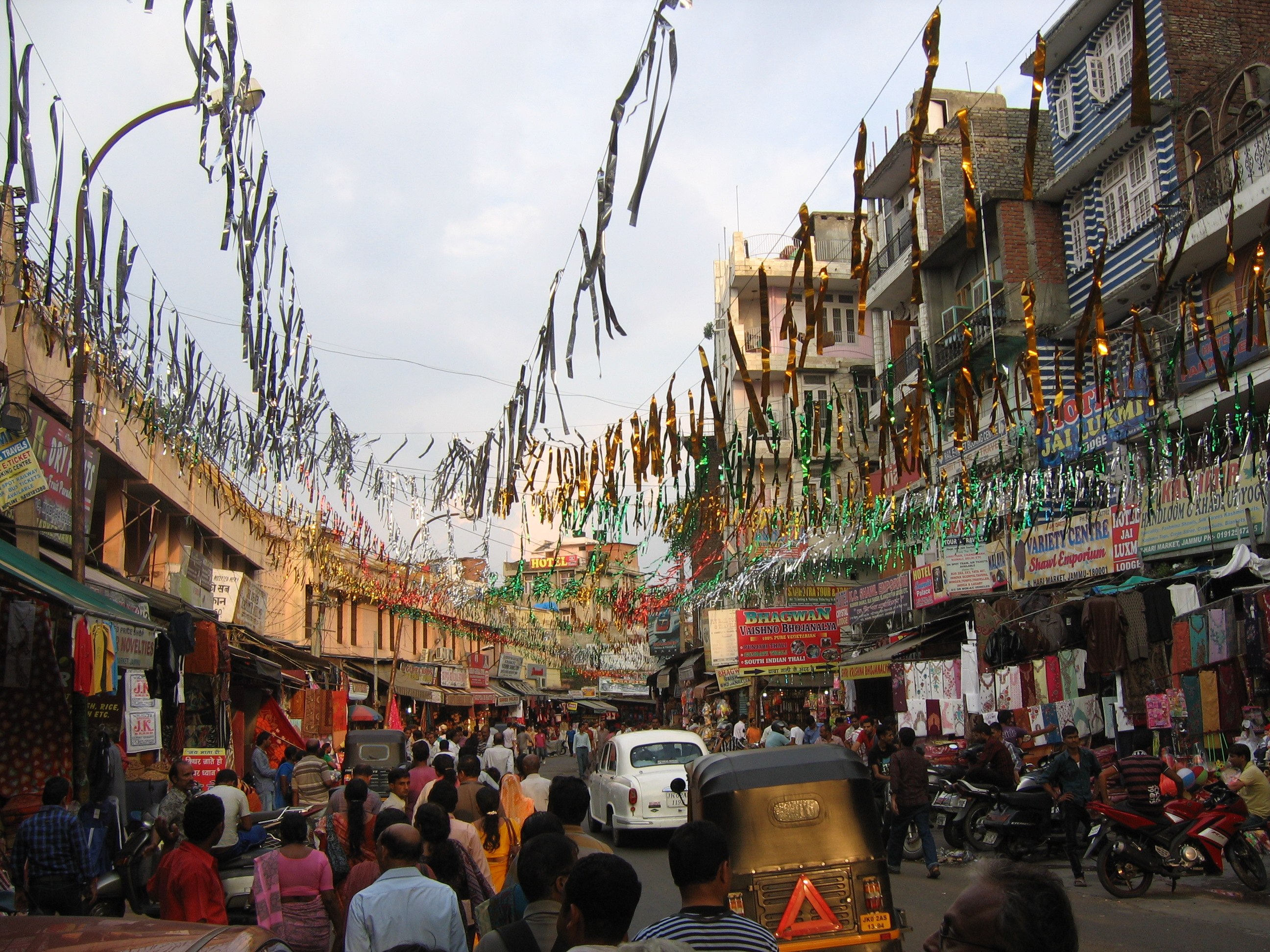 Views from Jammu city